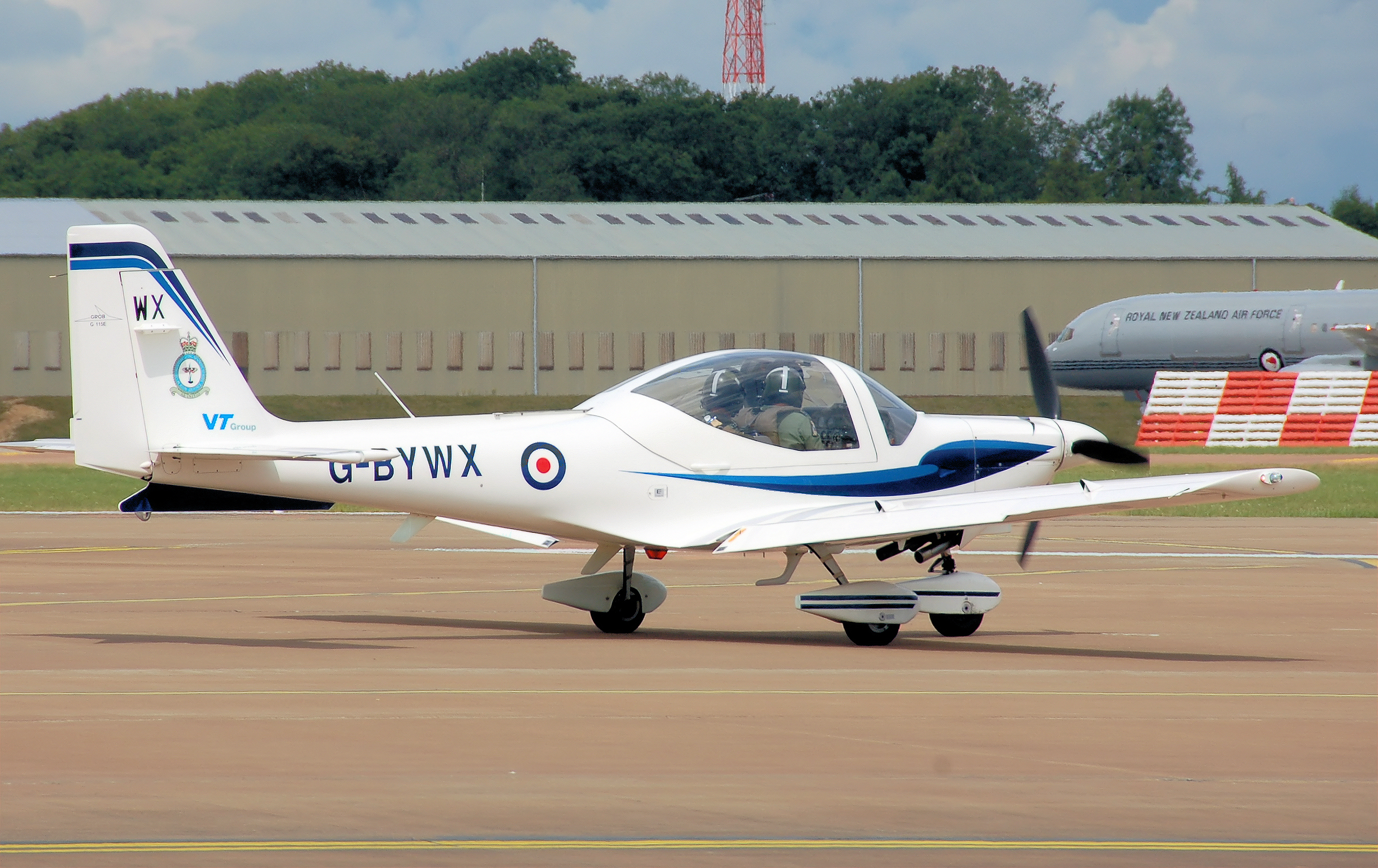 Grob G 115E Tutor taxiing out for takeoff at the 2009 Royal International Air Tattoo, Fairford, Gloucestershire, England.